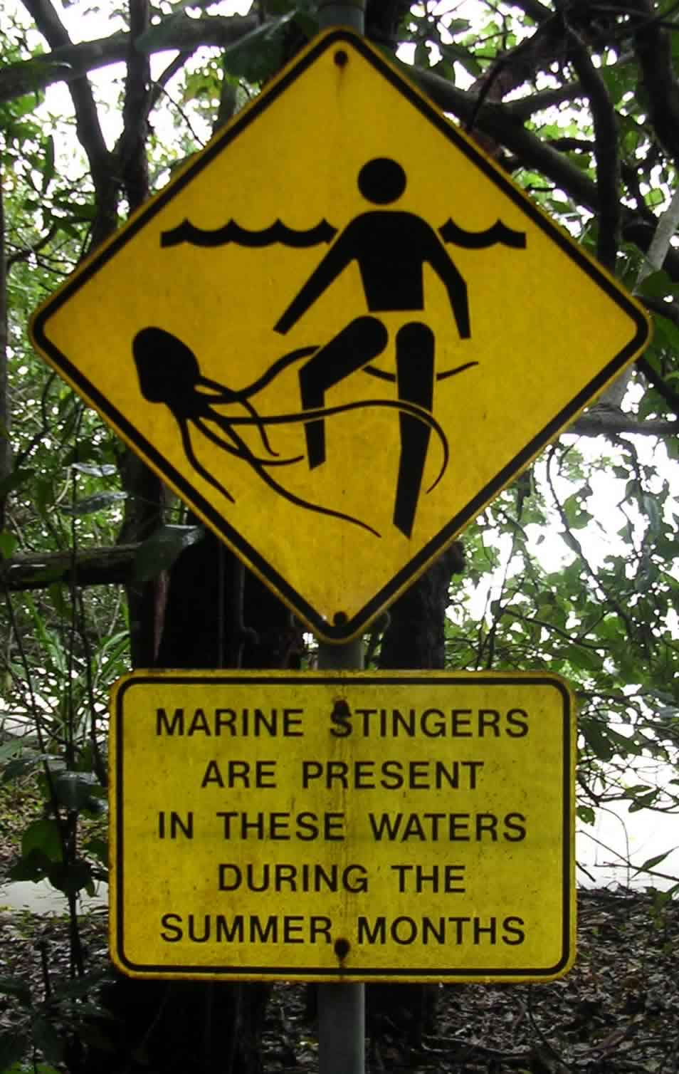 A signpost at a beach in Cape Tribulation, Queensland, Australia warning of the presence of the Box Jellyfish Chironex fleckeri and others.